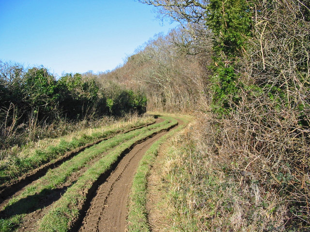 Bridleway near Harley Down, Dorset